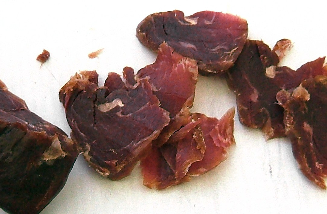 Finnish dried reindeer meat. Camera: Fujifilm FinePix E550 License on Flickr (2011-01-25): CC-BY-SA-2.0 Flickr tags: finland, reindeer, scotland, uk